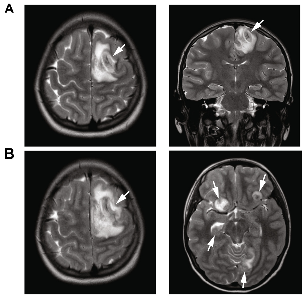 A: T2-weighted MRI of a 15-year-old American female showing liquefied, necrotic brain tissue as a result of granulomatous amoebic encephalitis caused by Balamuthia mandrillarisB: T1-weighted MRI showing expansion and addition of necrotic areas 4 days later